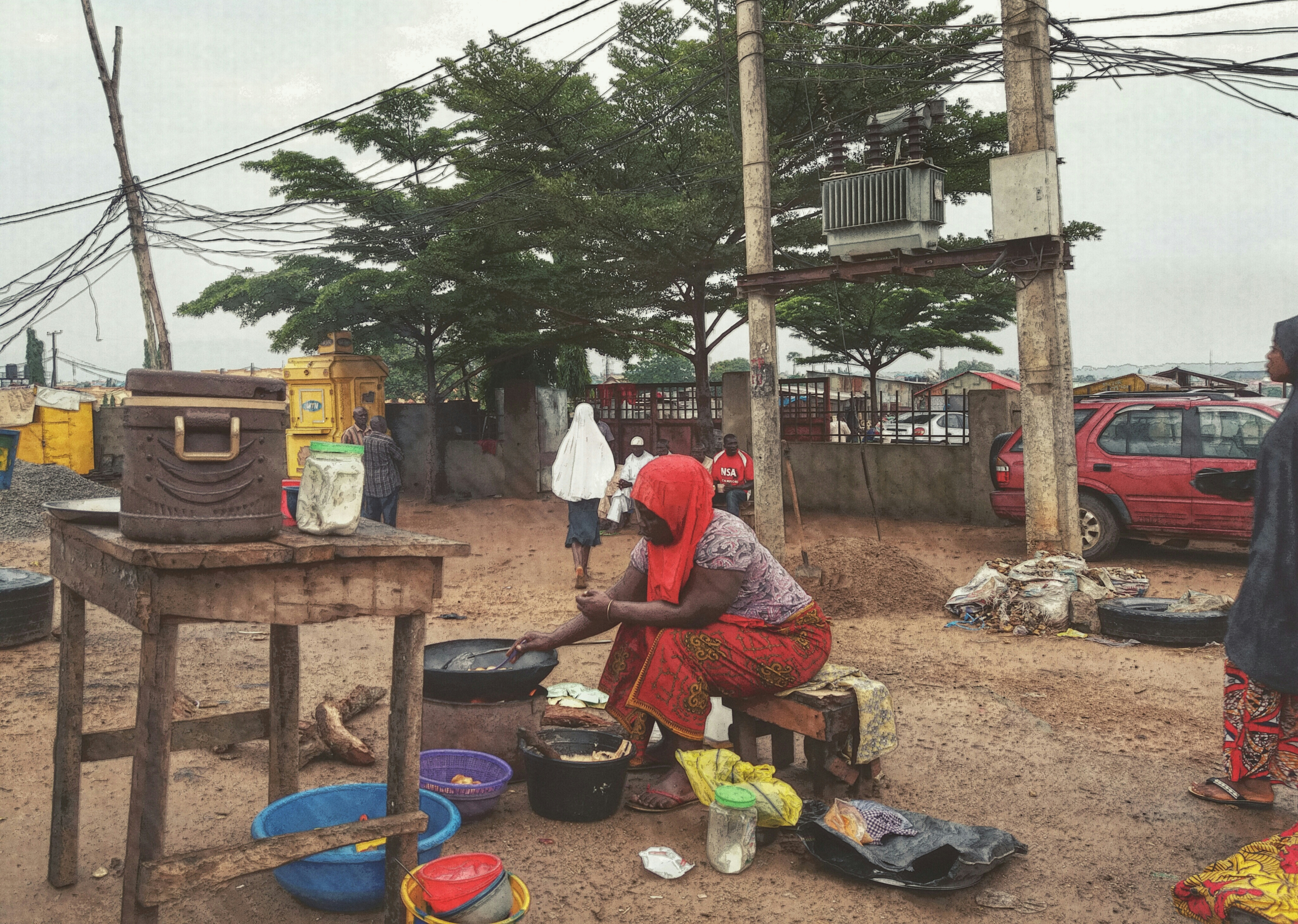 This is an image of "African people at work" from Nigeria